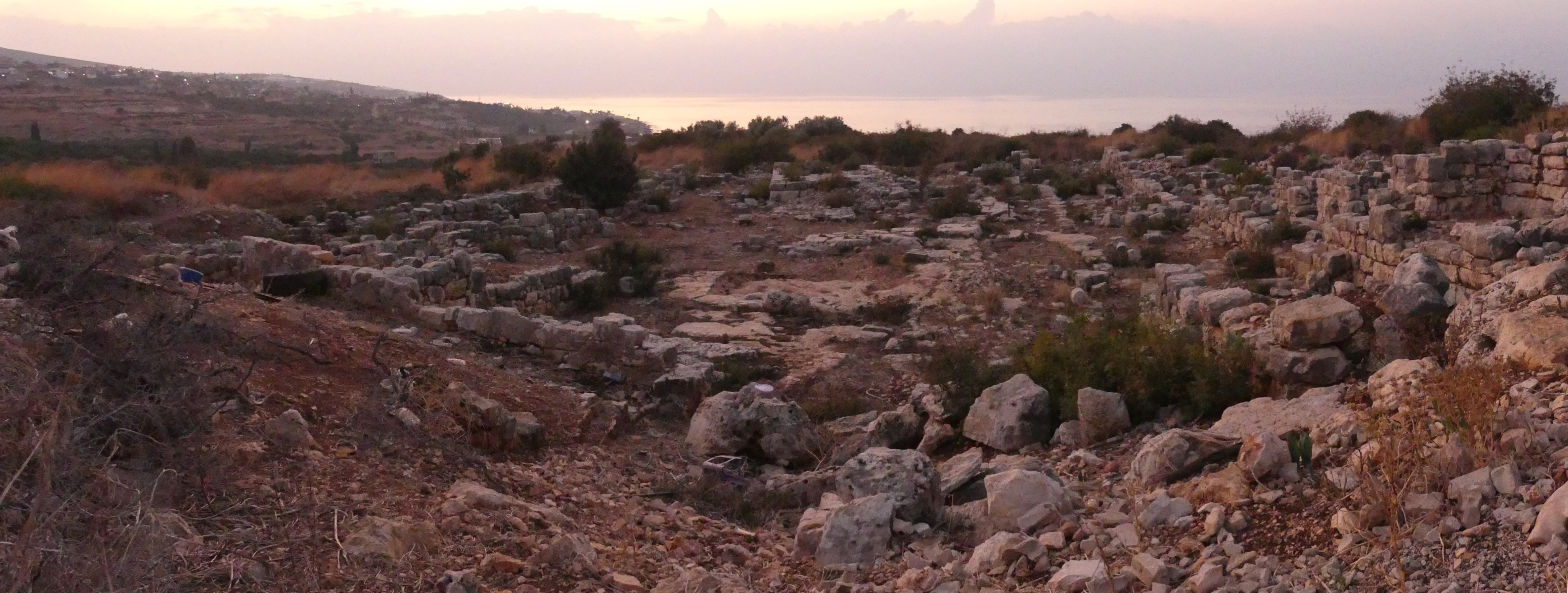 The ruins of the Phoenician east temple in Umm Al-Amad between the town of Al-Naqoura and the Ladder of Tyre, Southern Lebanon, overlooking the Mediterranean Sea. The remnants of the religious centre, especially dedicated to the deity Baal Hamon, date back to the 2nd and 3rd century BCE and represent the last period of Phoenician cults.